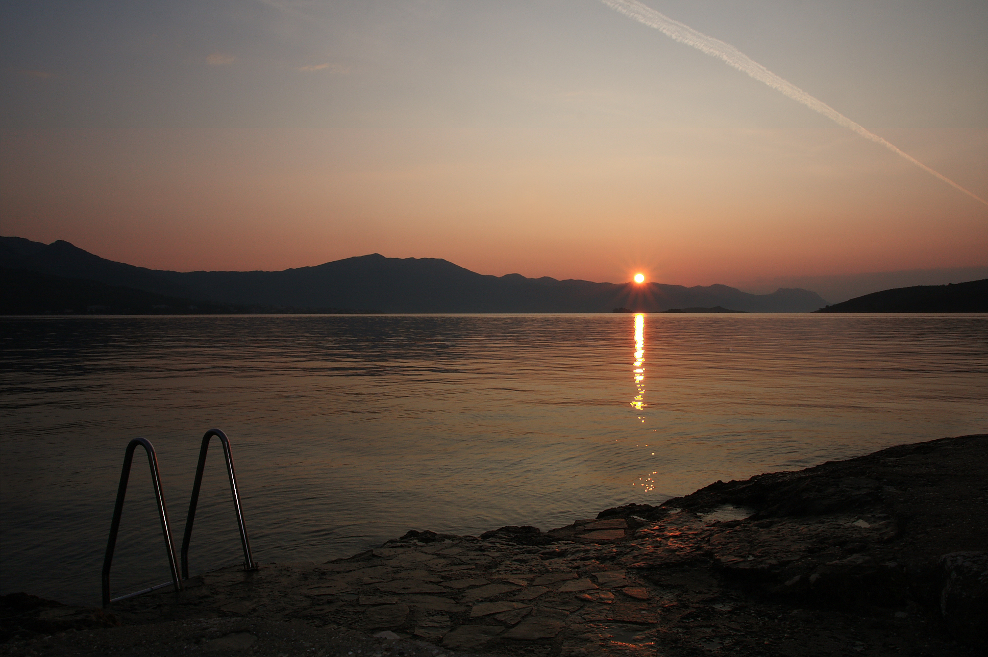 Sunrise in the Korčula, Croatia.